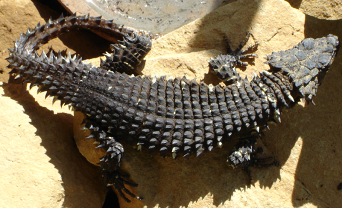 Cordylus breyeri, photo uploaded to Flickr under Creative Commons 2.0. Source page here.